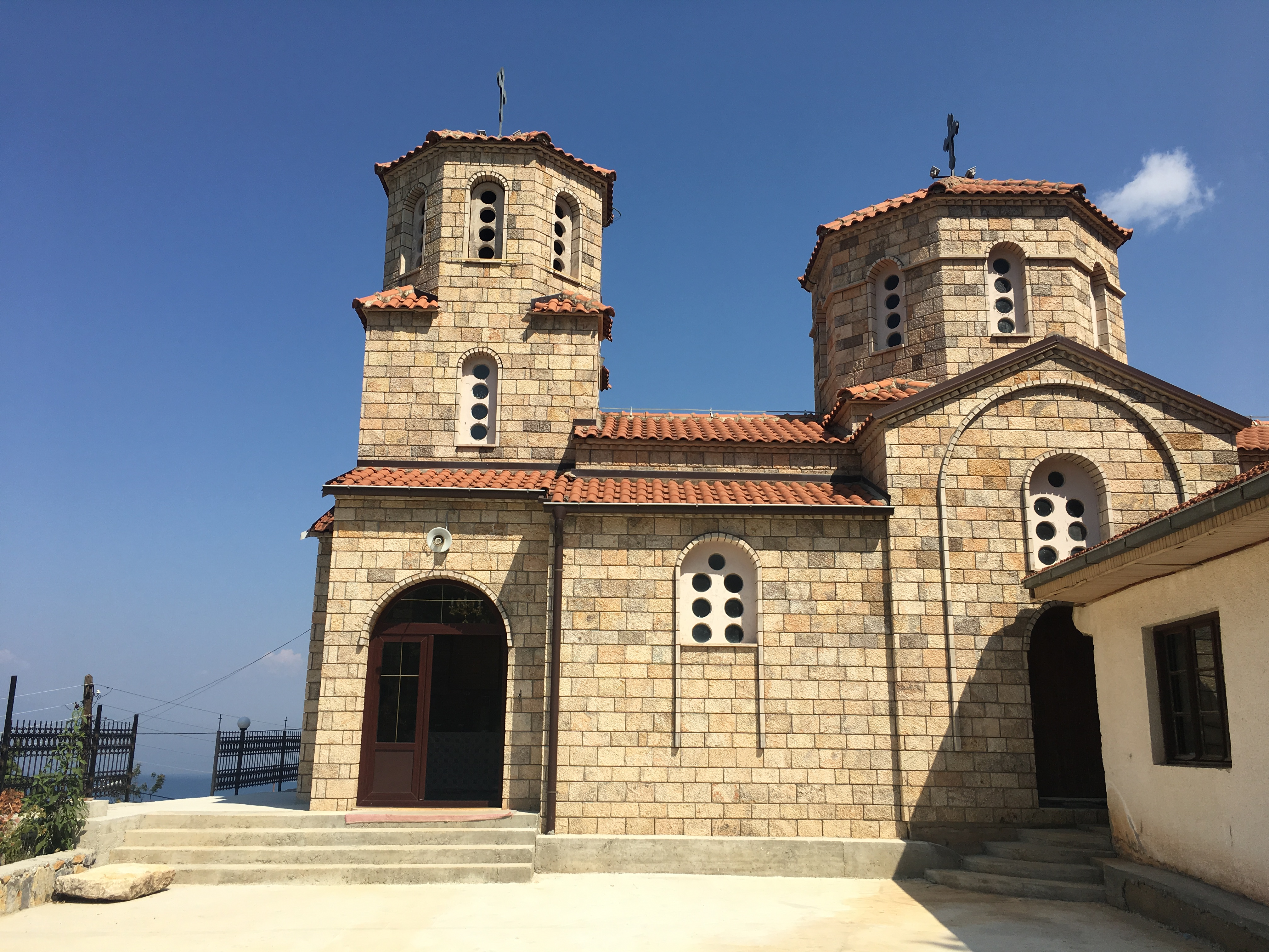 St. Nicholas Church in the village of Trpejca